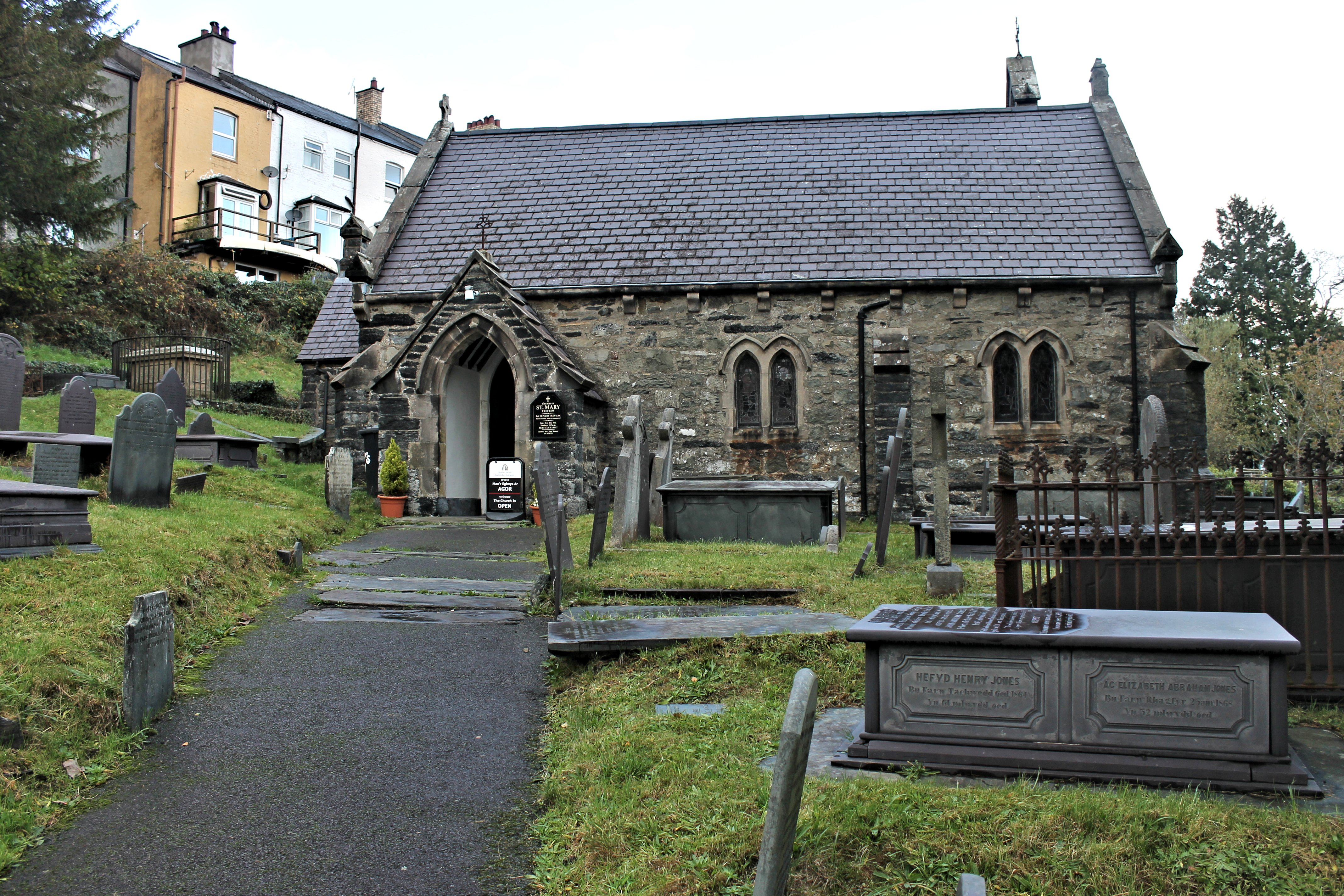 St Mary's church, Trefriw, Conwy, Wales. Grade: II* Date Listed: 13 October 1966. Cadw Building ID: 3219